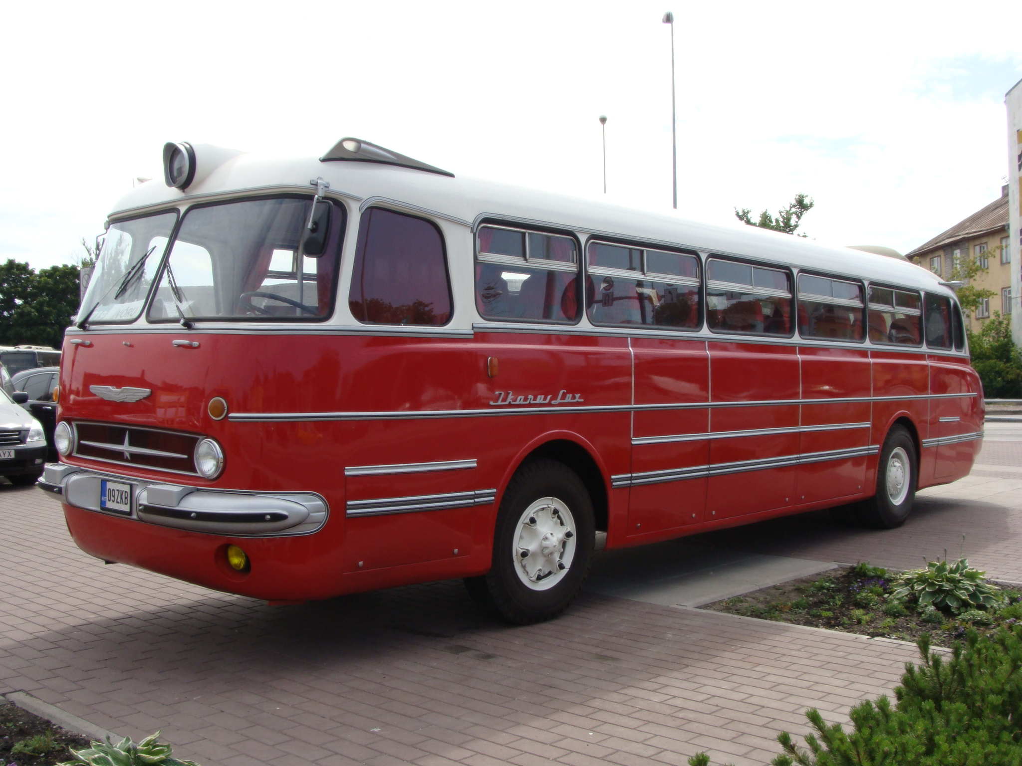 Ikarus Lux, a variant of the Ikarus 55.data